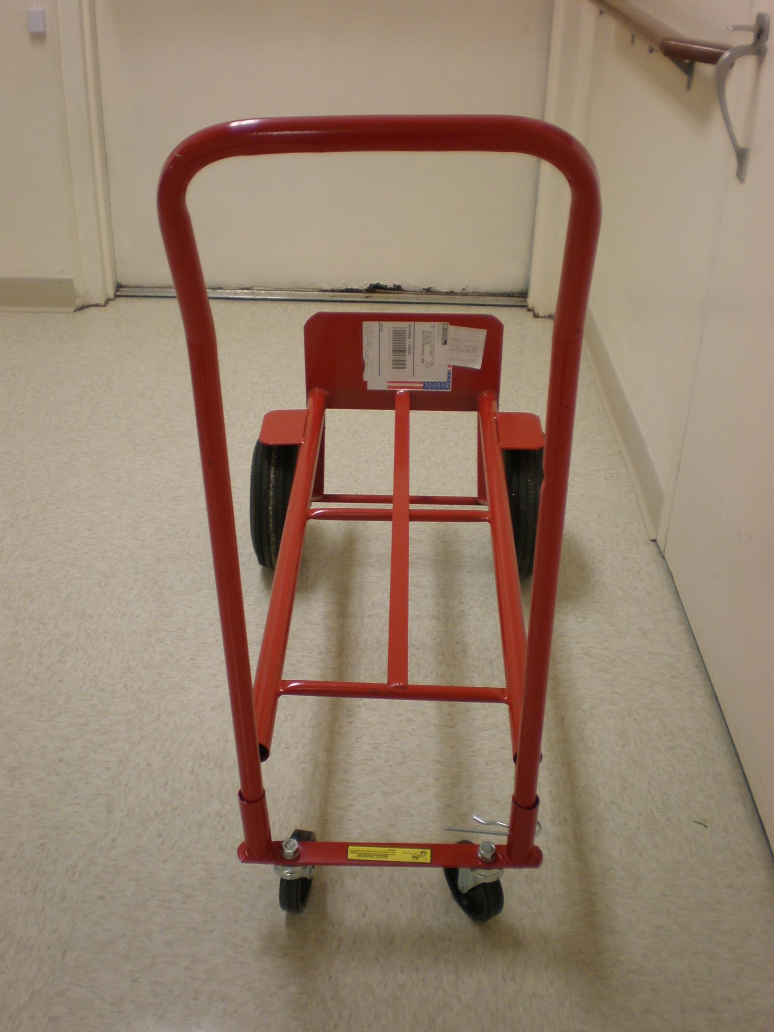 A hand truck set up on 4 of its wheels.